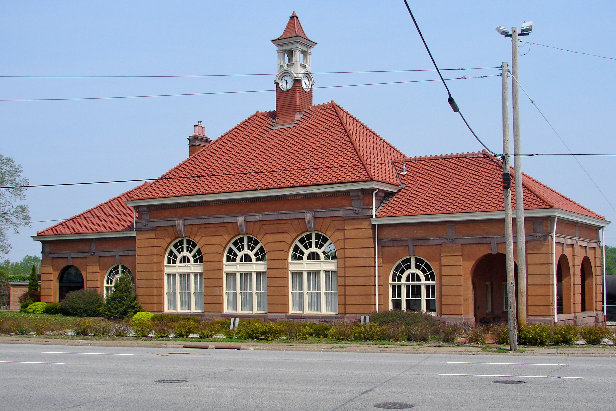 Rock Island Lines Passenger Station on the NRHP since June 3, 1982. At 3029 5th Ave., Rock Island, Rock Island County, Illinois. Not downtown, nor the original Rock Island station, but as the Rock Island Lines station in Rock Island, it may have particular importance to rail fans. A Renaissance Revival style train depot that opened in 1901 and closed in 1980. It now serves as a banquette hall, known as Abbey Station.